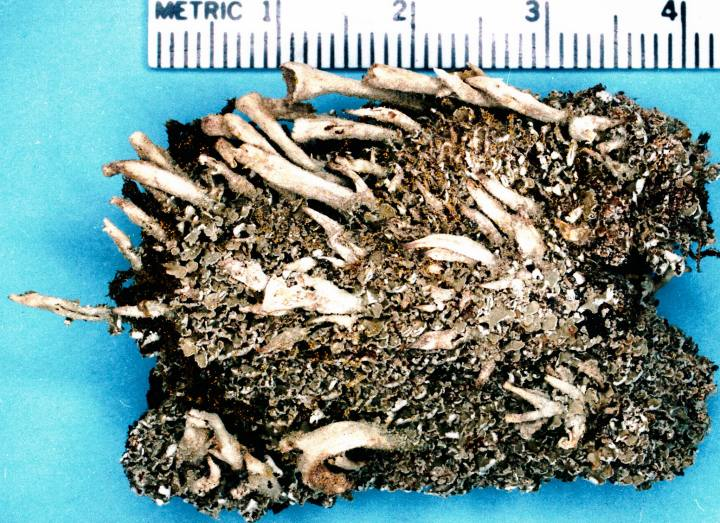 Cladonia fimbriata (L.) Fr., 1831 (photograph of a herbarium specimen) Growing on Pottsville sandstone boulder 50 feet along a dirt road running W from the intersection of Oakland-Sang-Run Road and Mayhew Inn Road (near W end of Deep Creek Lake), Garrett County, Maryland, USA; collected and identified by A. Norden and B. Ball (No. 139, 30 Dec 1972); specimen is now in the Lichen Herbarium of the New York Botanical Garden. (millimeter scale)